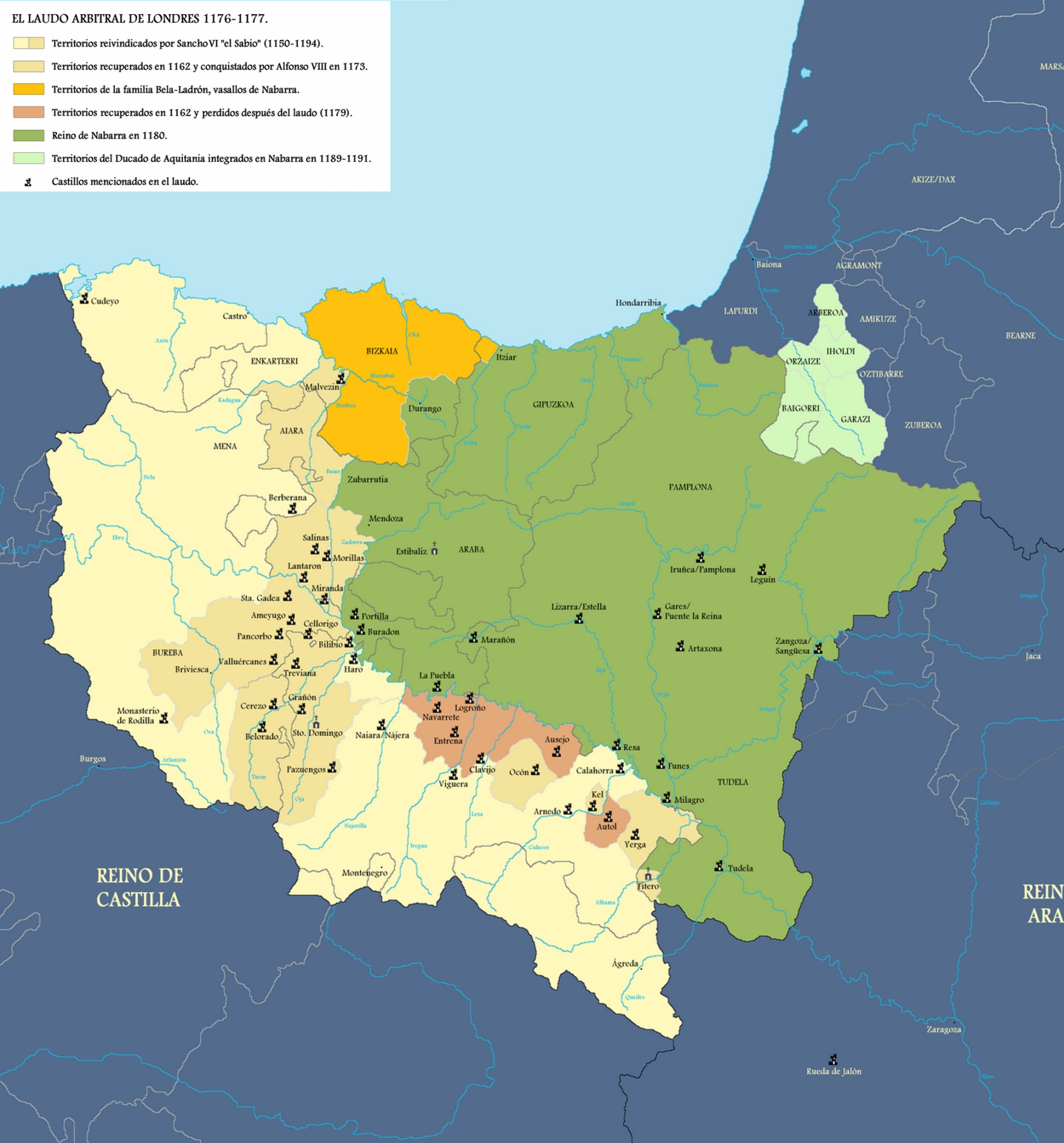 Territories of Navarre during the Arbitration of London (1176-1177)